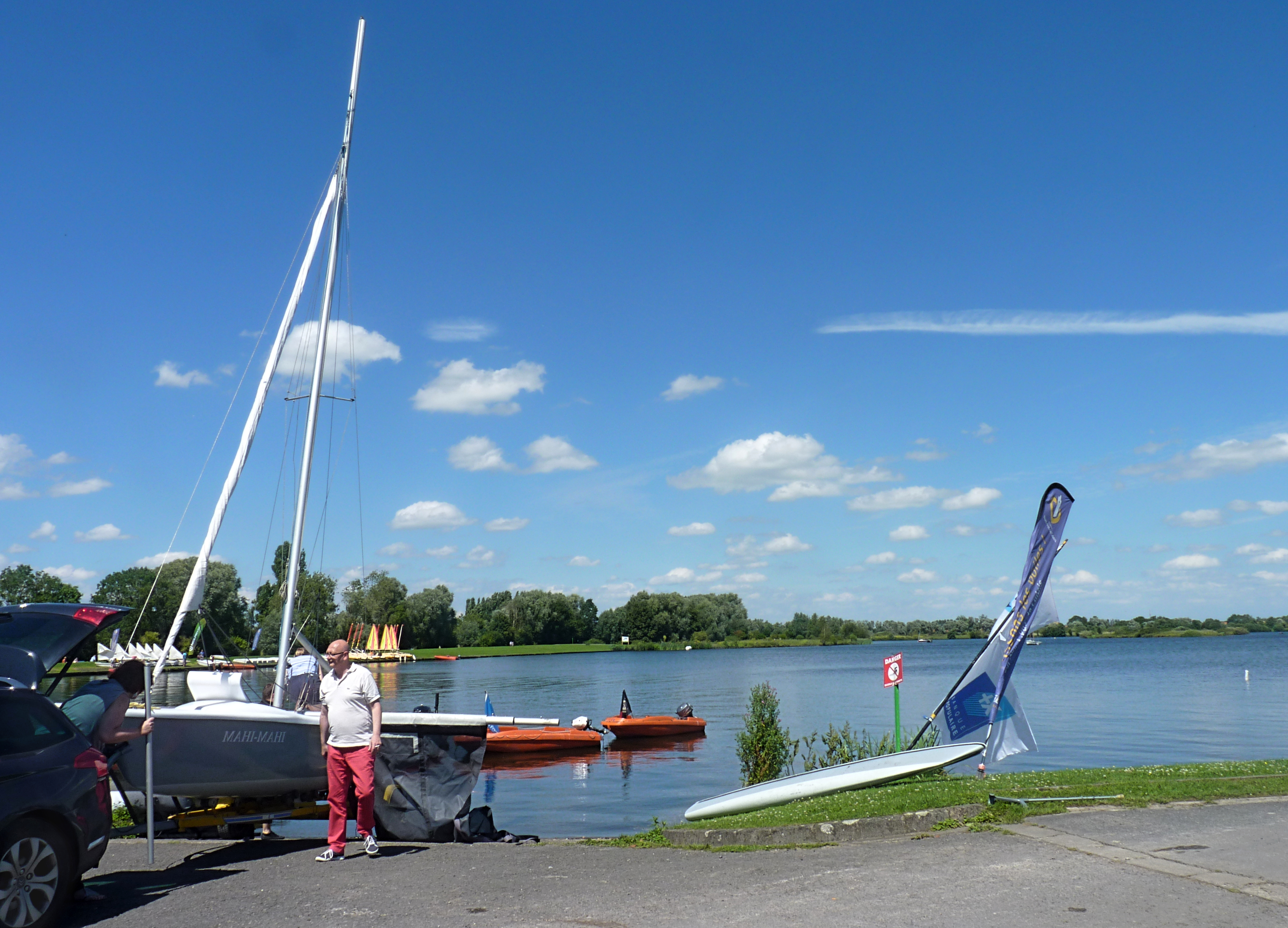 One of the water surfaces of the "Prés du Hem" in Armentières, France.